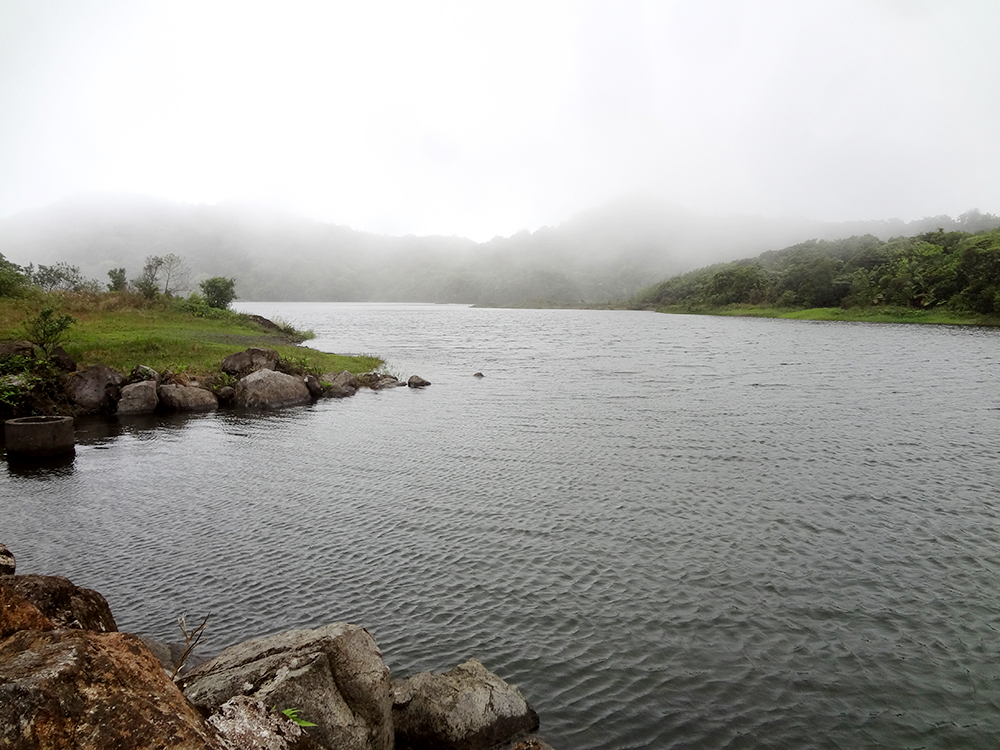 Freshwater Lake in the mountains of the island of Dominica